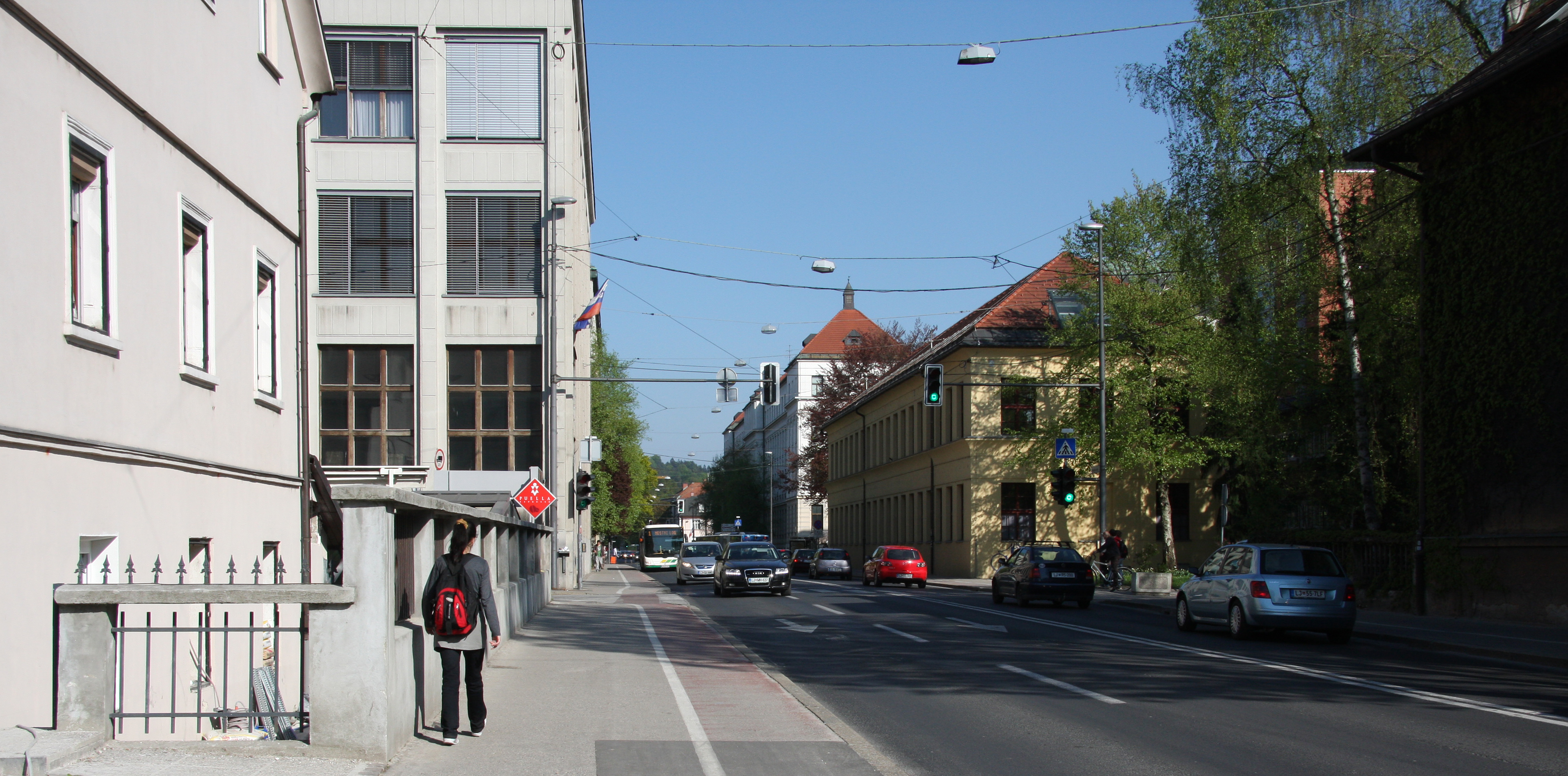 View along Aškerčeva street, Ljubljana.